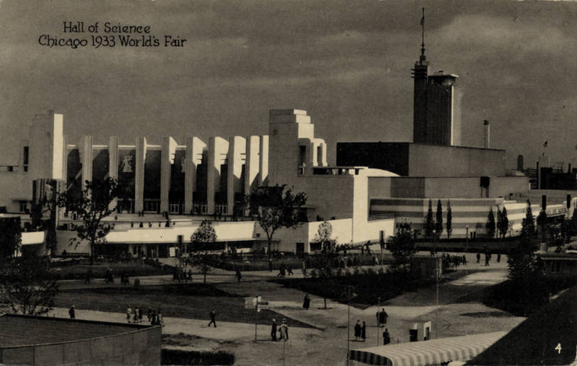 Hall Of Science, Chicago 1933 Worlds Fair